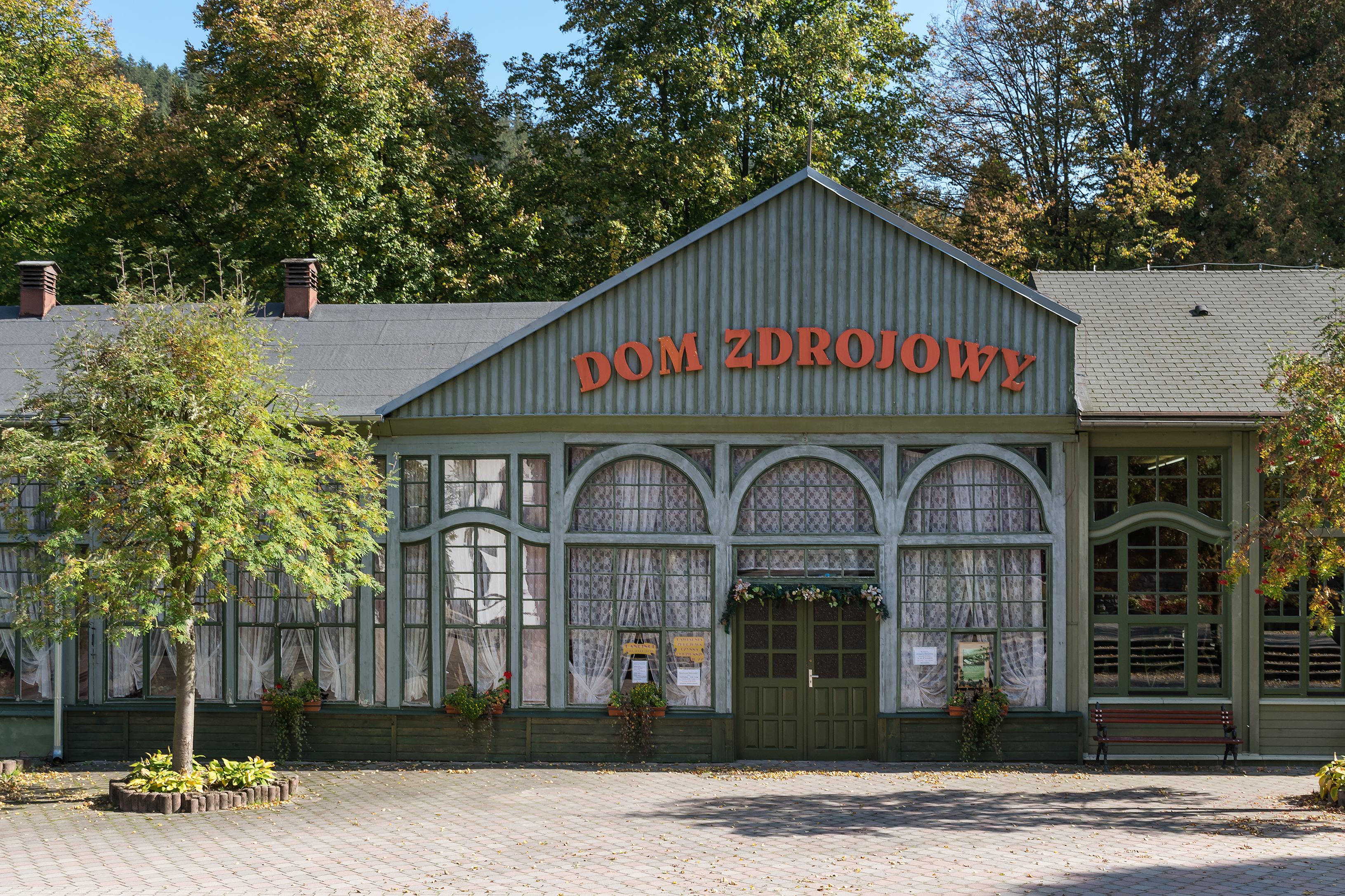 Spa house in Długopole-Zdrój Wikidata has entry Q30046546 with data related to this item.